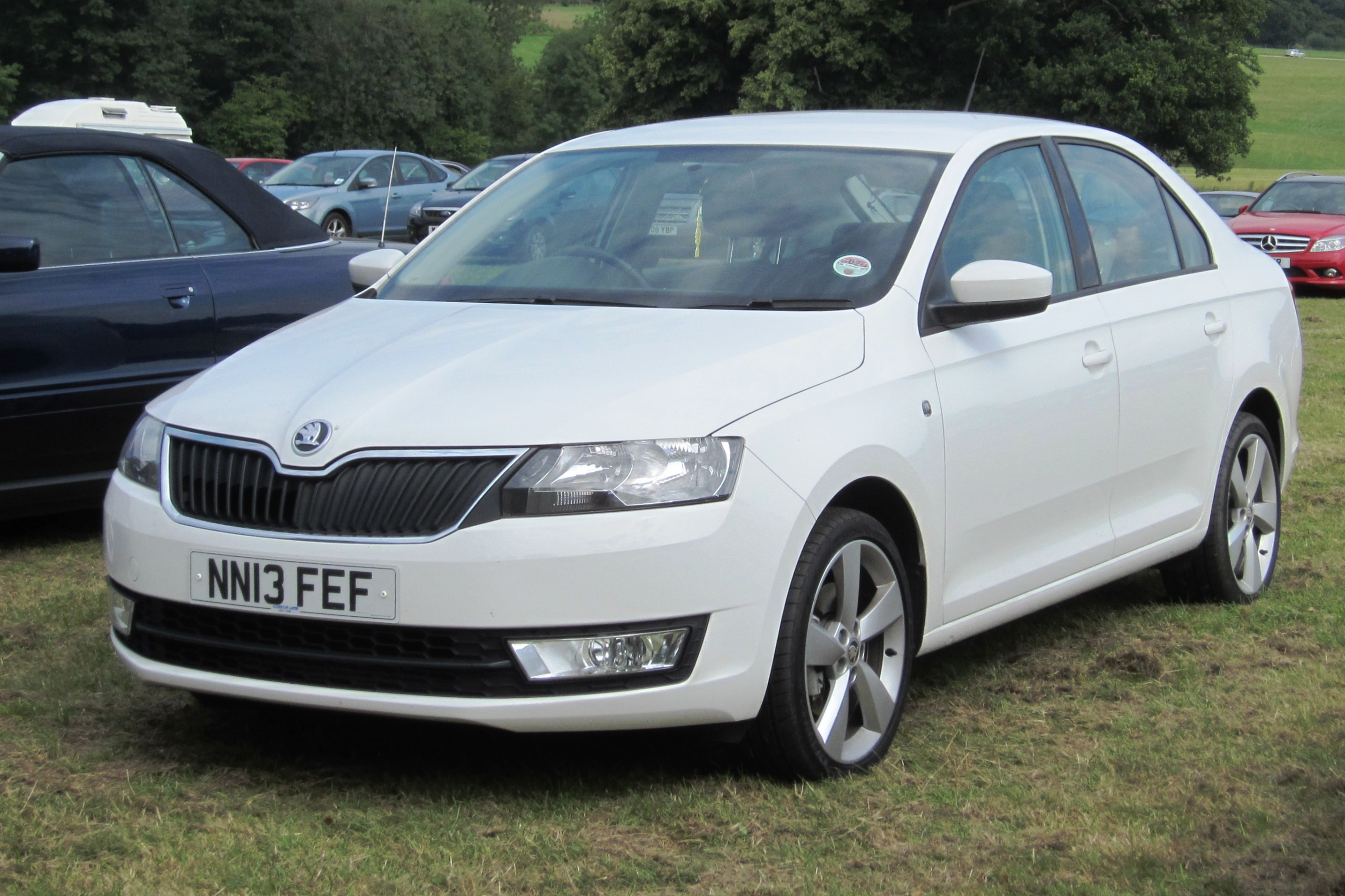 Škoda Rapid TDI (2013)